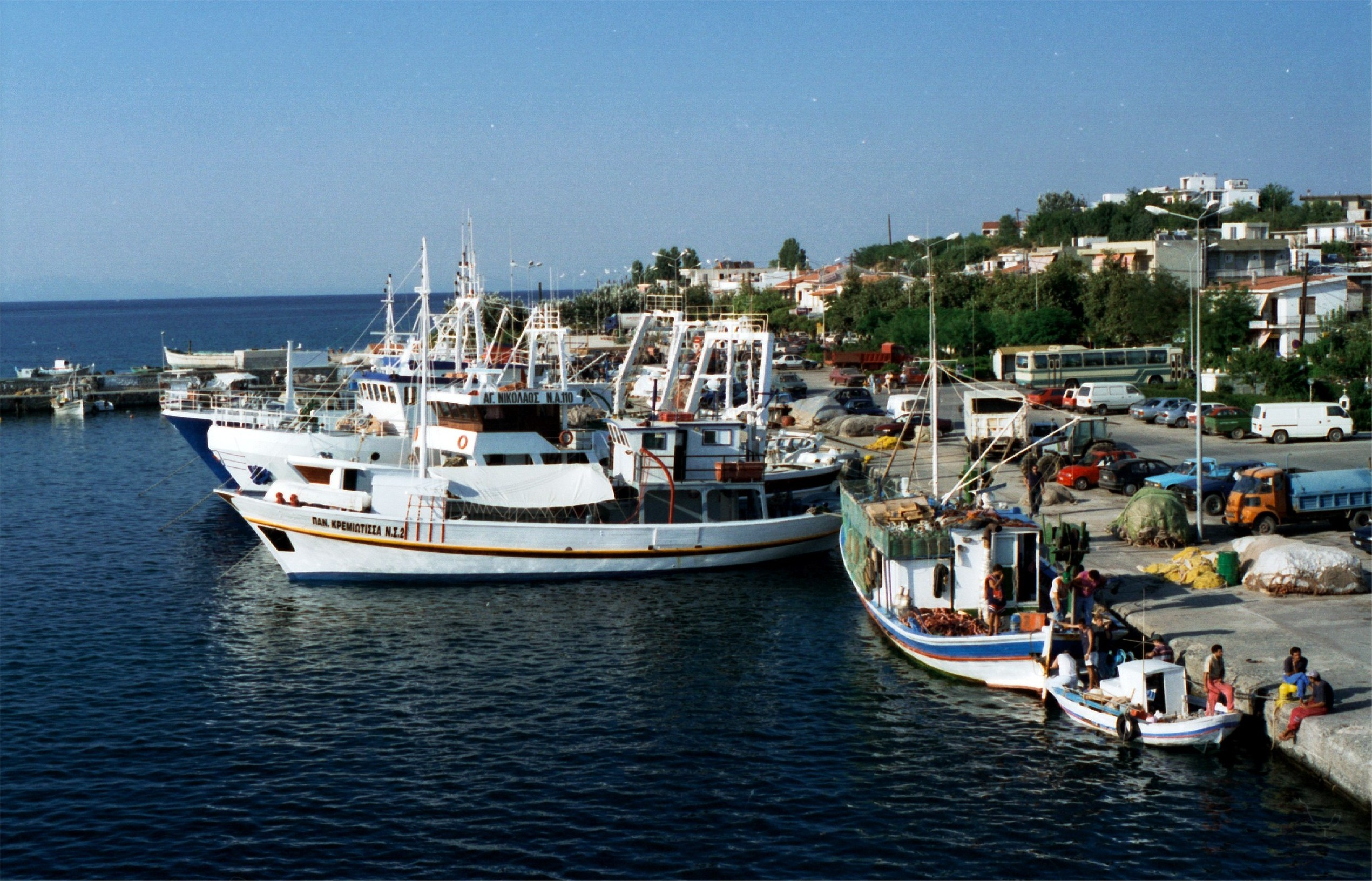 Fishing boats, Samothraki port, Greece.